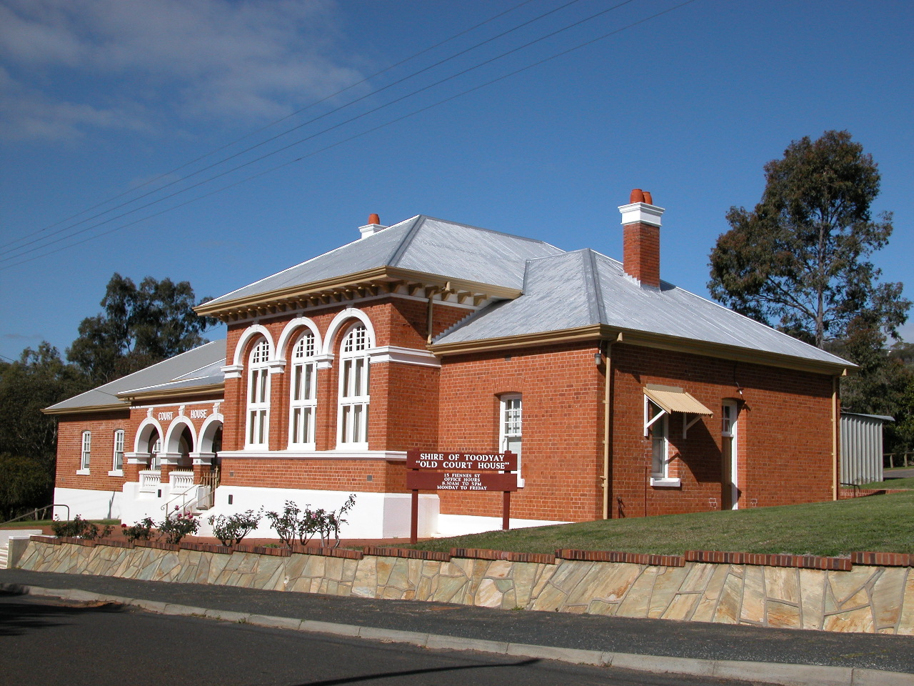 Old Court House in Toodyay, Western Australia, is now used as Shire of Toodyay offices. 15 Fiennes Street, Toodyay, Western Australia. Nyunga: Wadjella mabaan, Diudgee